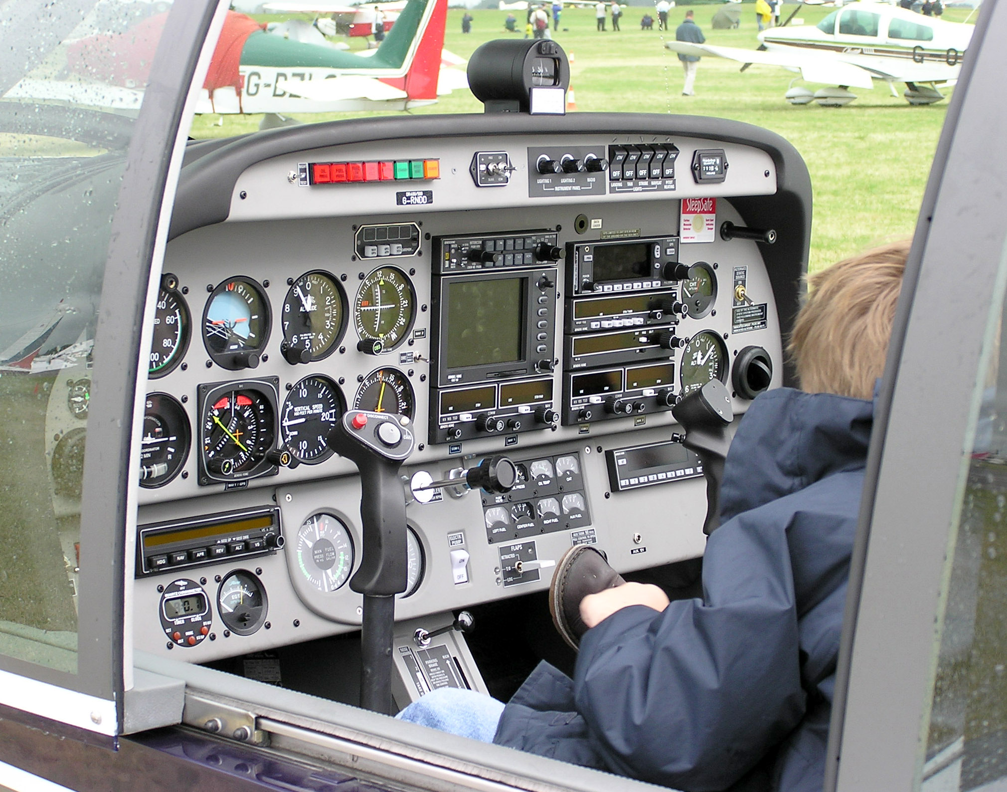 Dashboard of a Robin DR400 President (UK registration G-RNDD) at Kemble Airfield, Gloucestershire, England. Built in the year 2003.